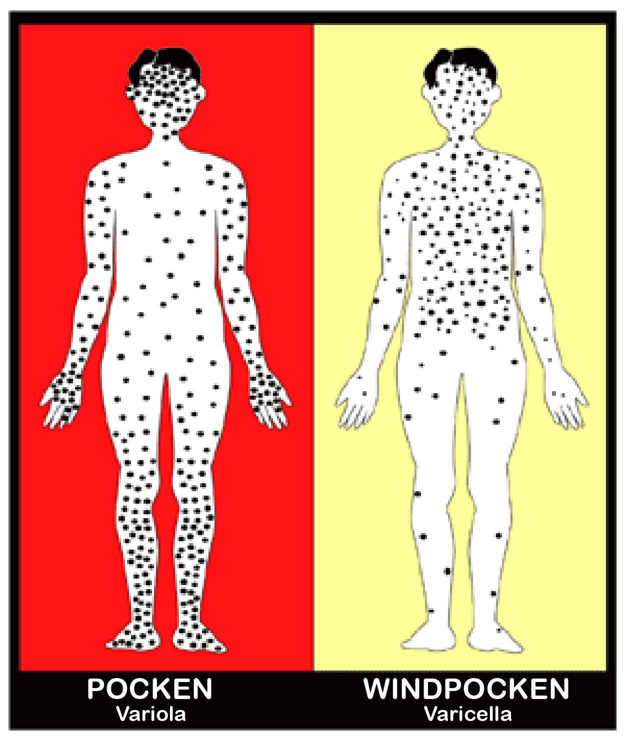 Rash distribution: early rash smallpox versus chickenpox